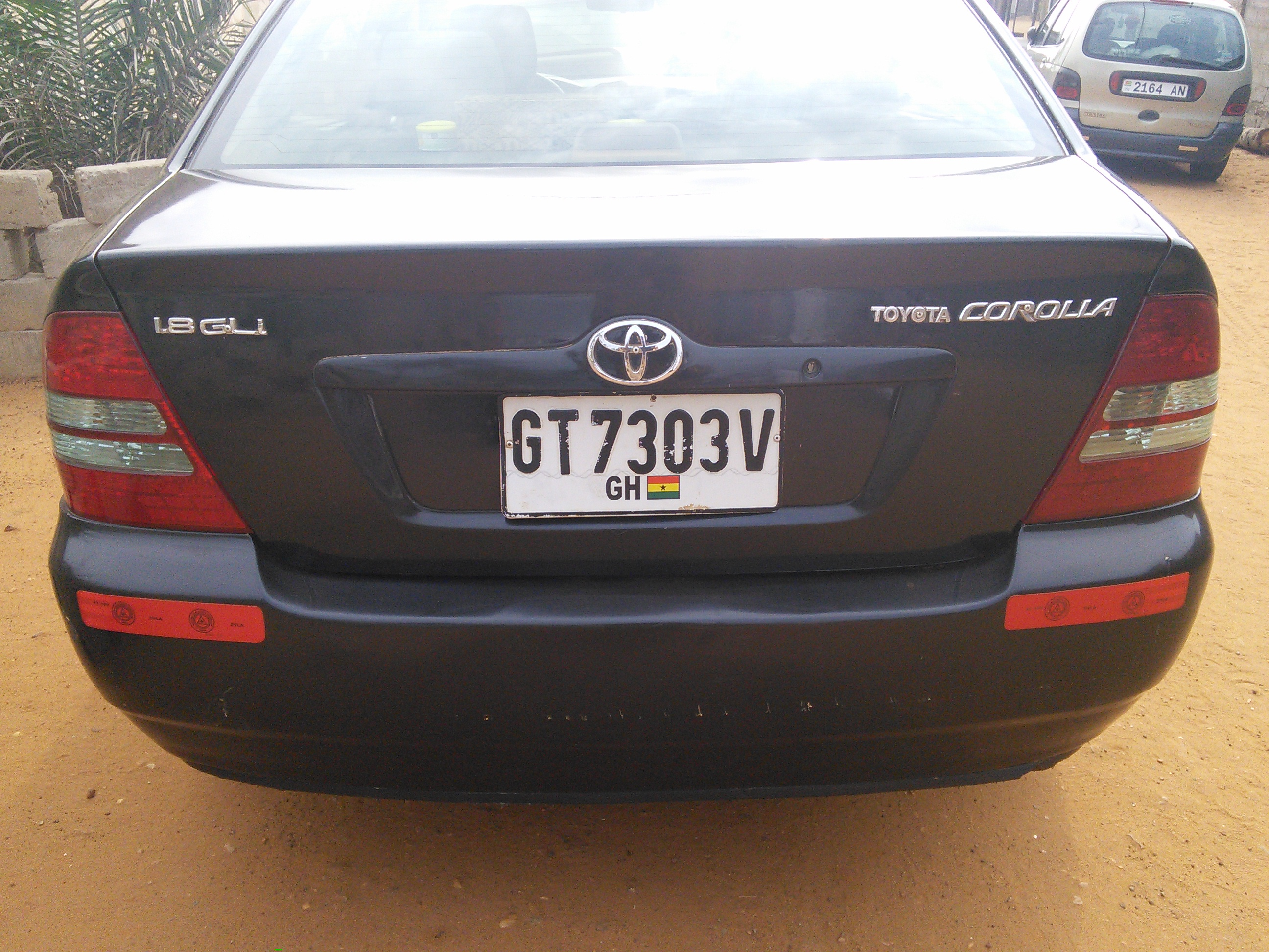 Vehicle number plate of Ghana old format